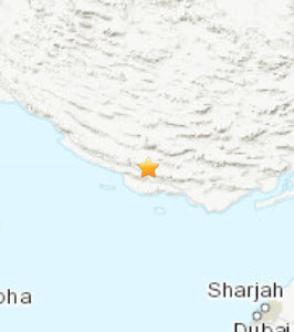 M 5.1 - southern Iran 2010-07-20 19:50:10 (UTC)